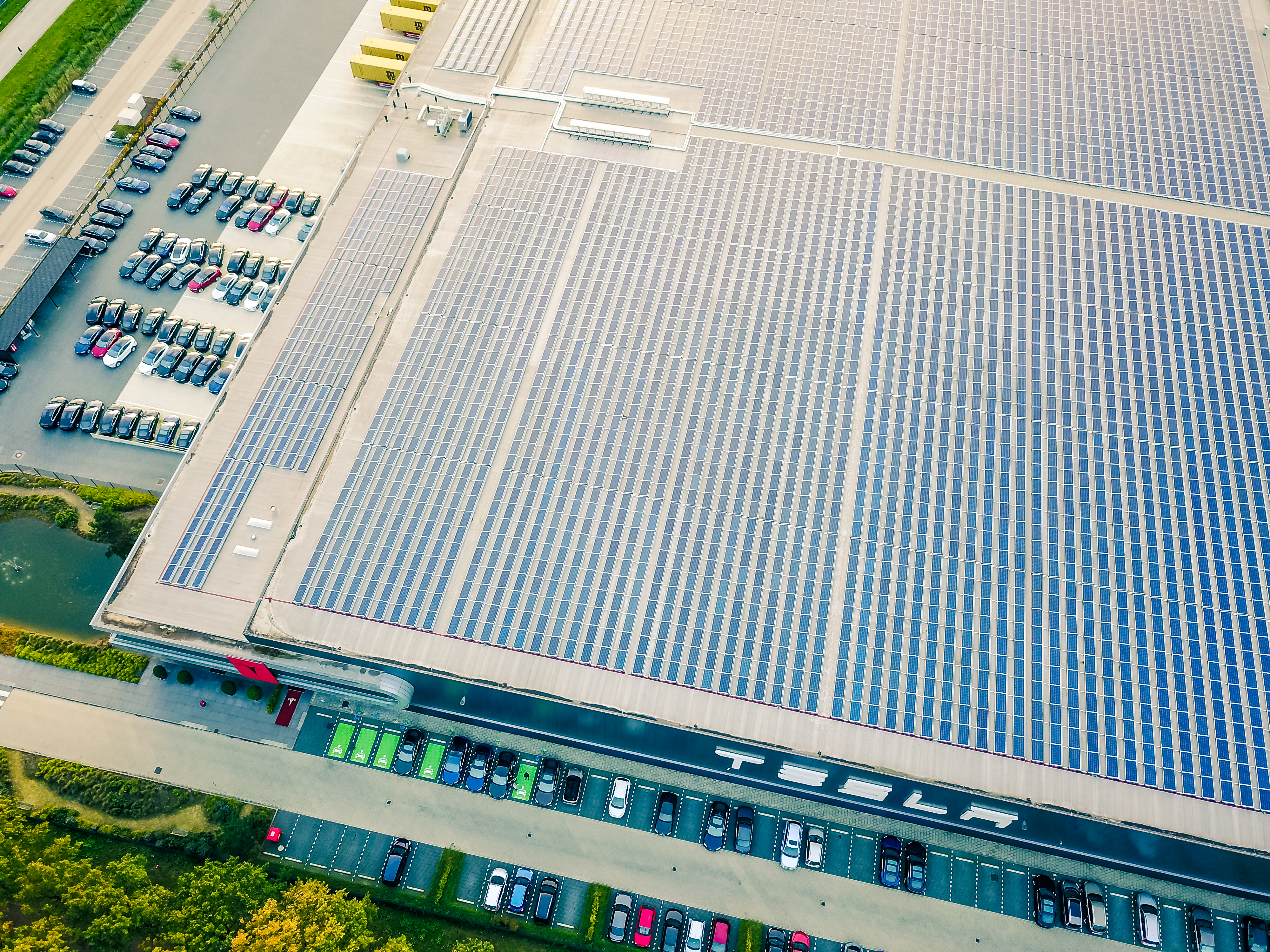 In Netherlands